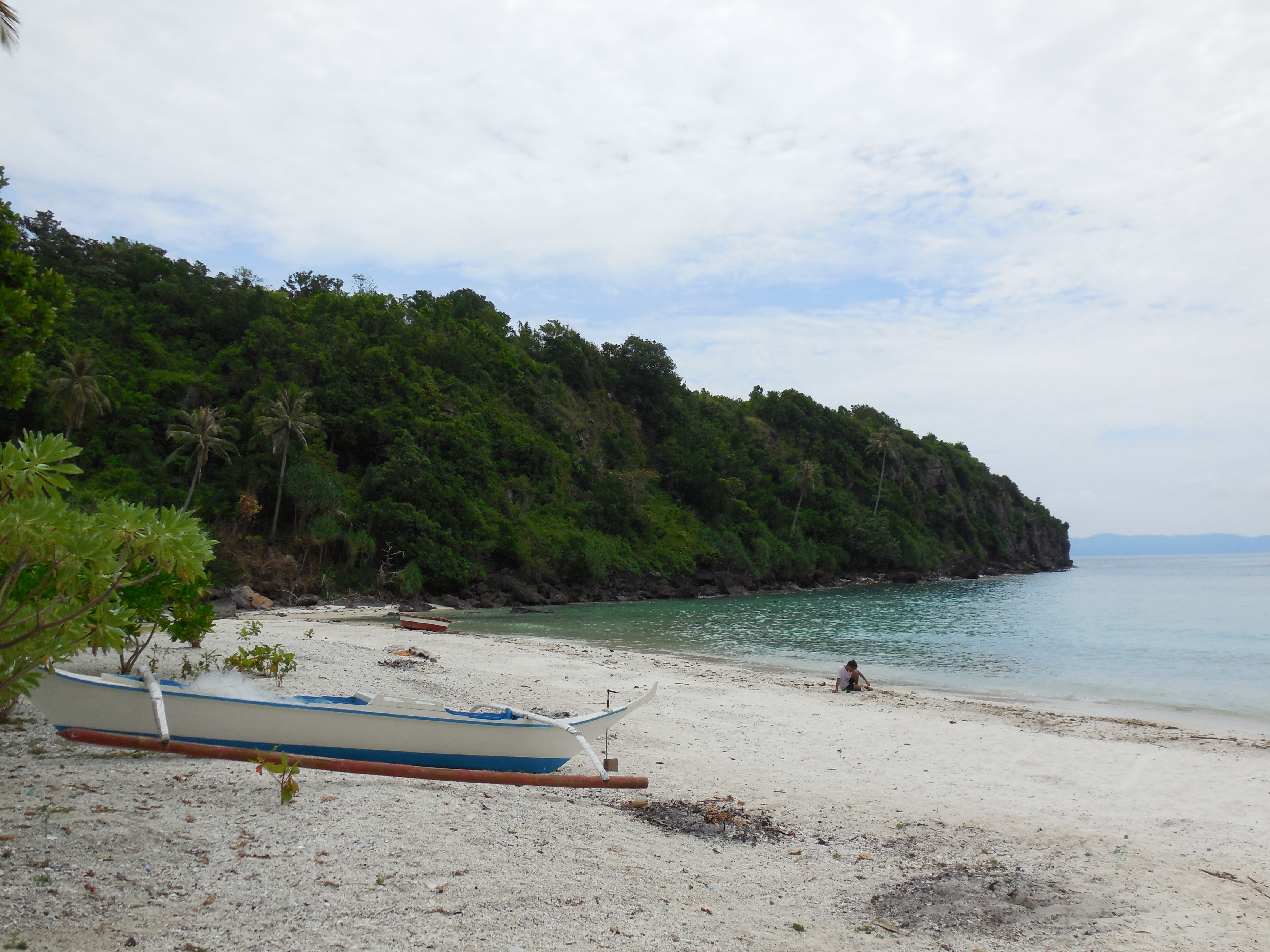 Tambak Beach in Barangay Banice, Banton, Romblon.